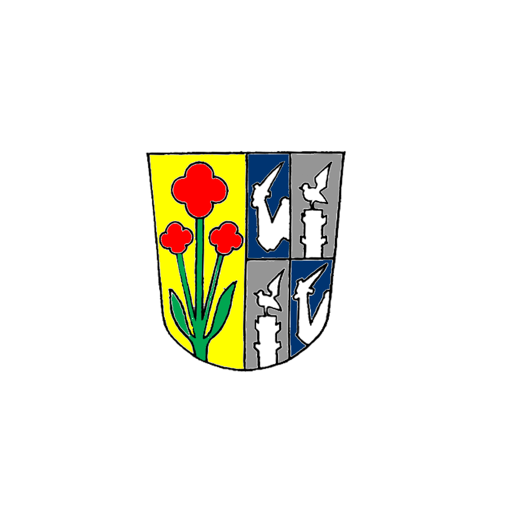 The Midelfart Family crest